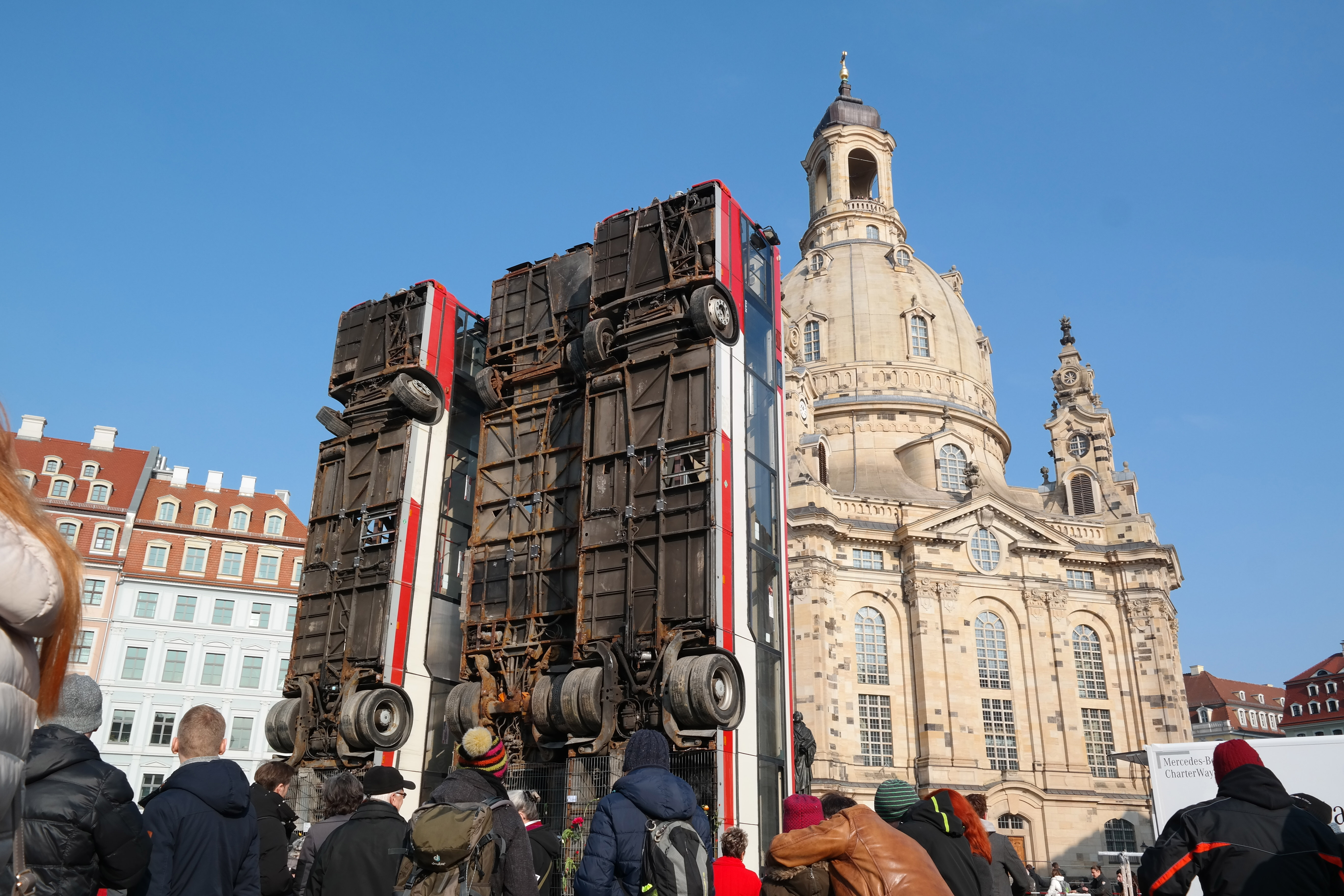 Manaf Halbouni's Bus Installation "Monument" in front of the Frauenkirche in Dresden/Germany.